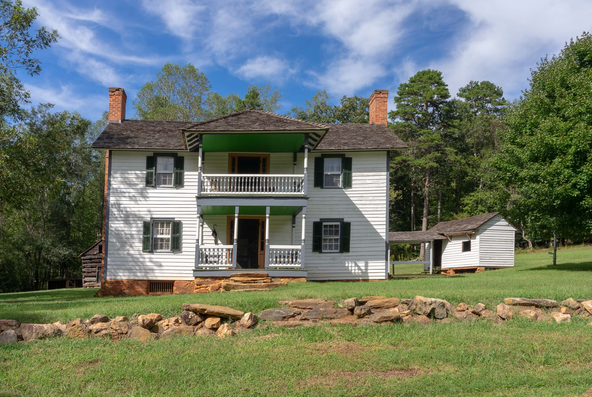 The Hauser Farmhouse with the washhouse at the Horne Creek Living Historical Farm. The house was built c. 1880. The farm is representative of NC Piedmont farms c. 1900.